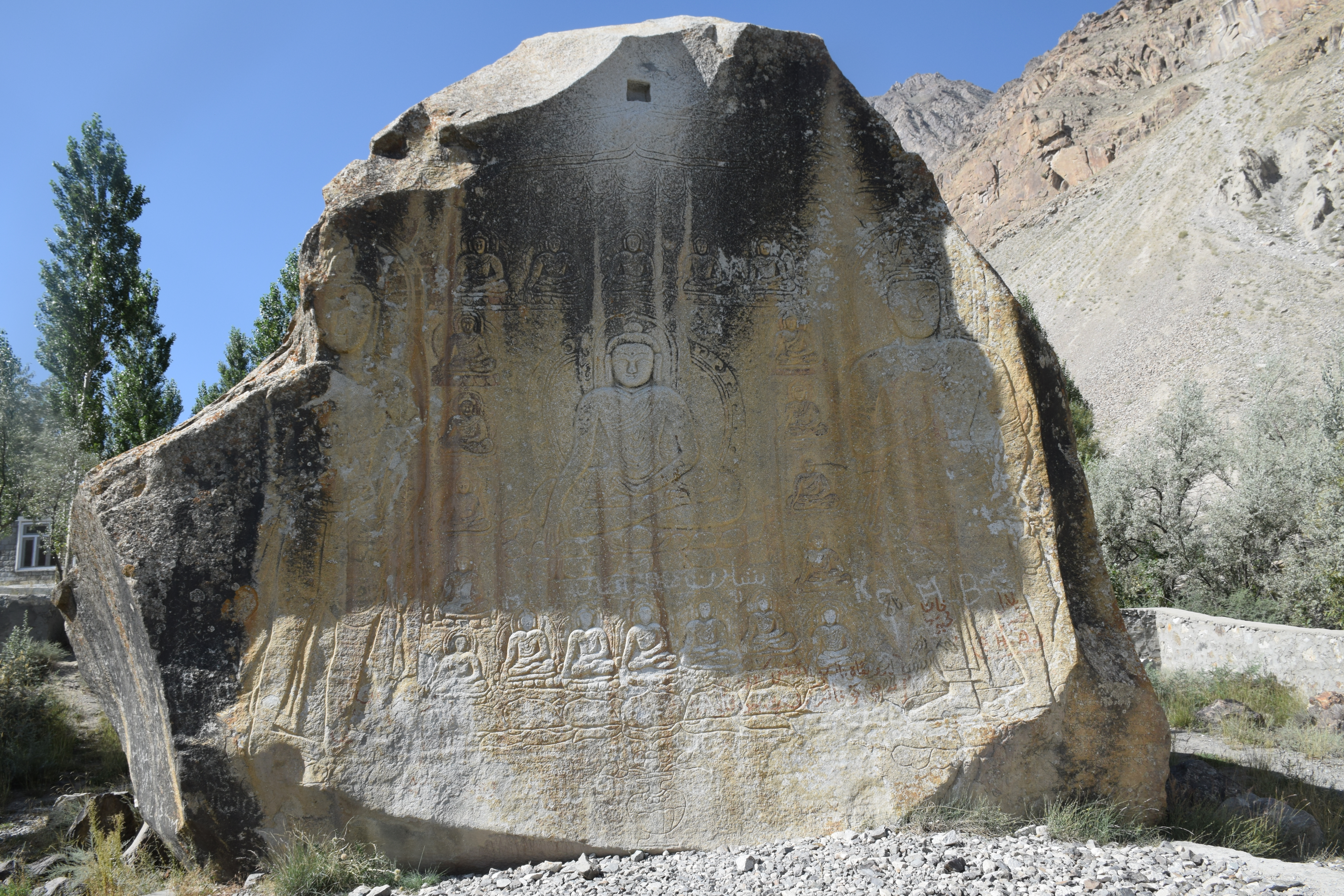 Manthal Rock (Buddhist inscriptions) This is a photo of a monument in Pakistan identified as the GB-23